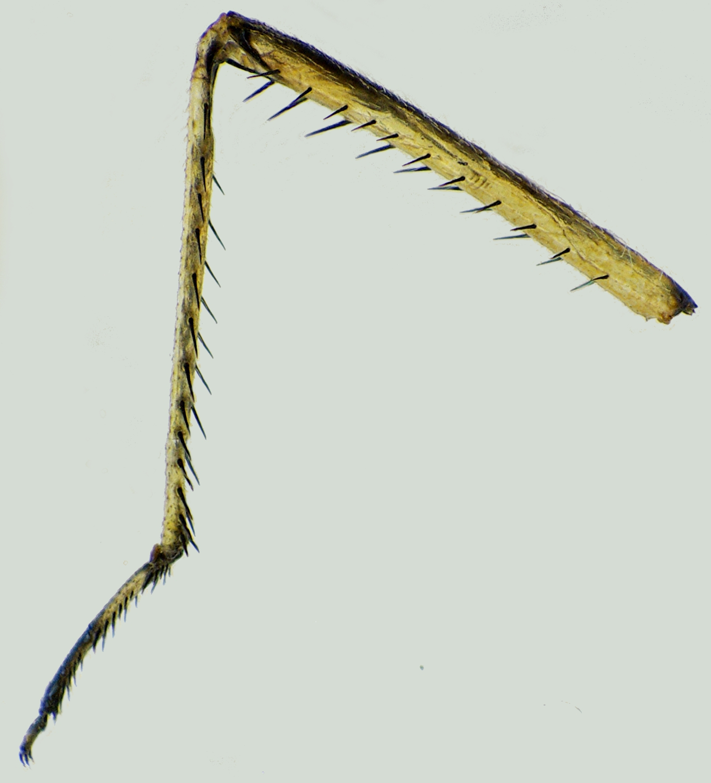 Hind leg of Coenagrion puella